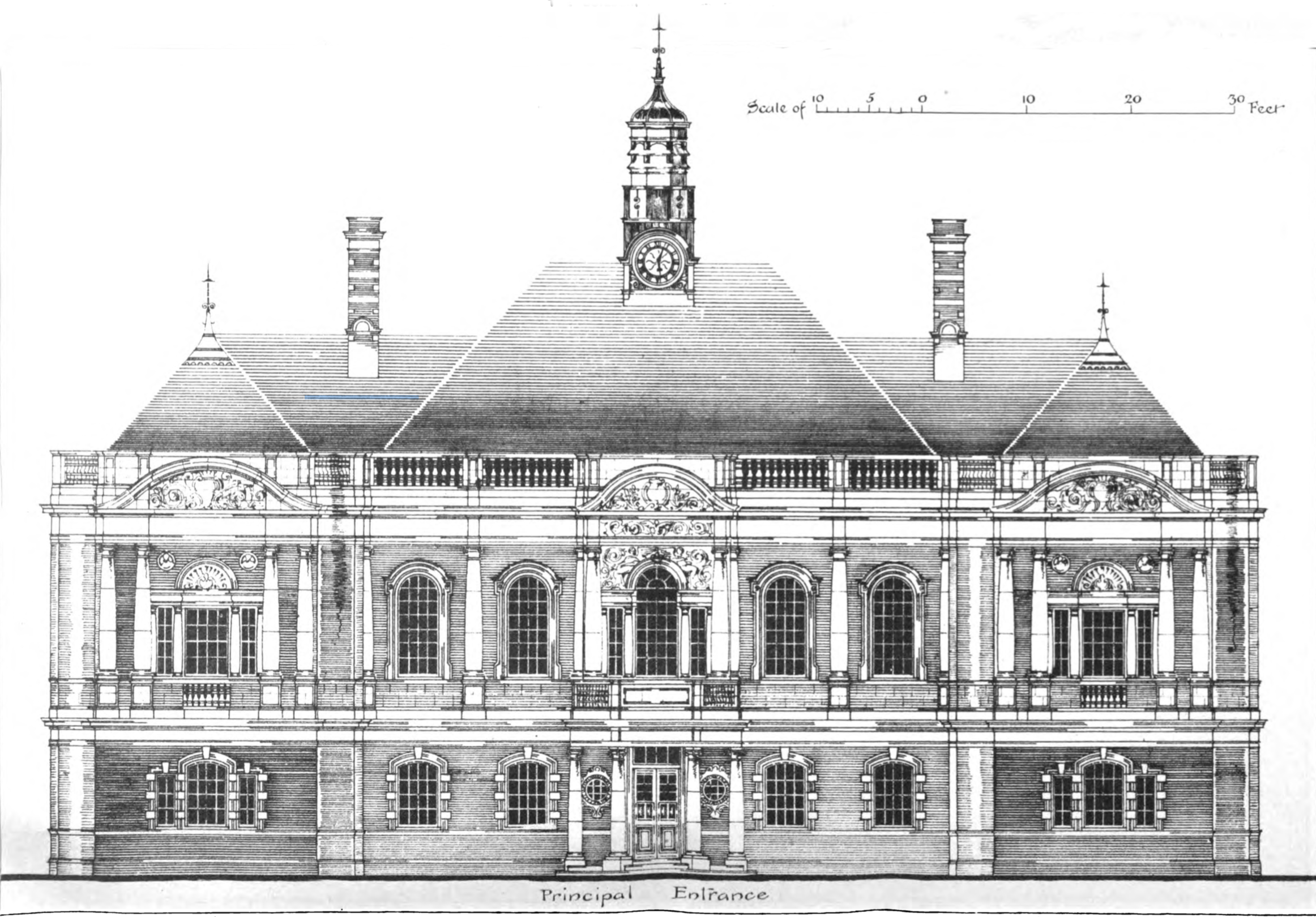 Front elevation of Batterea Town Hal aka 'New Parochial Offices, Battersea'